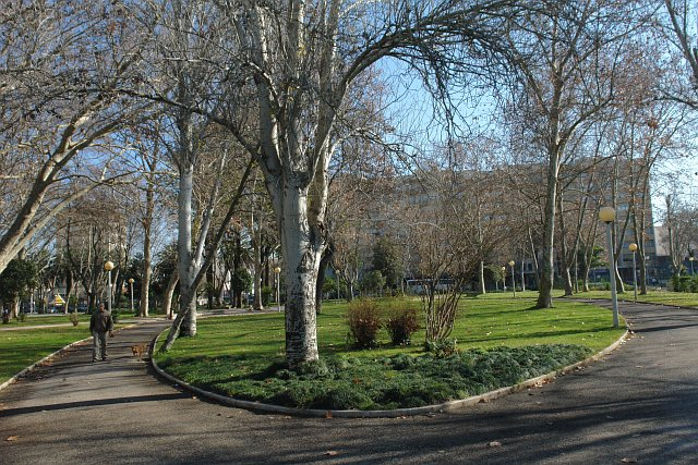 Bonfim Garden in Setúbal, Portugal Photographer: Osvaldo Gago